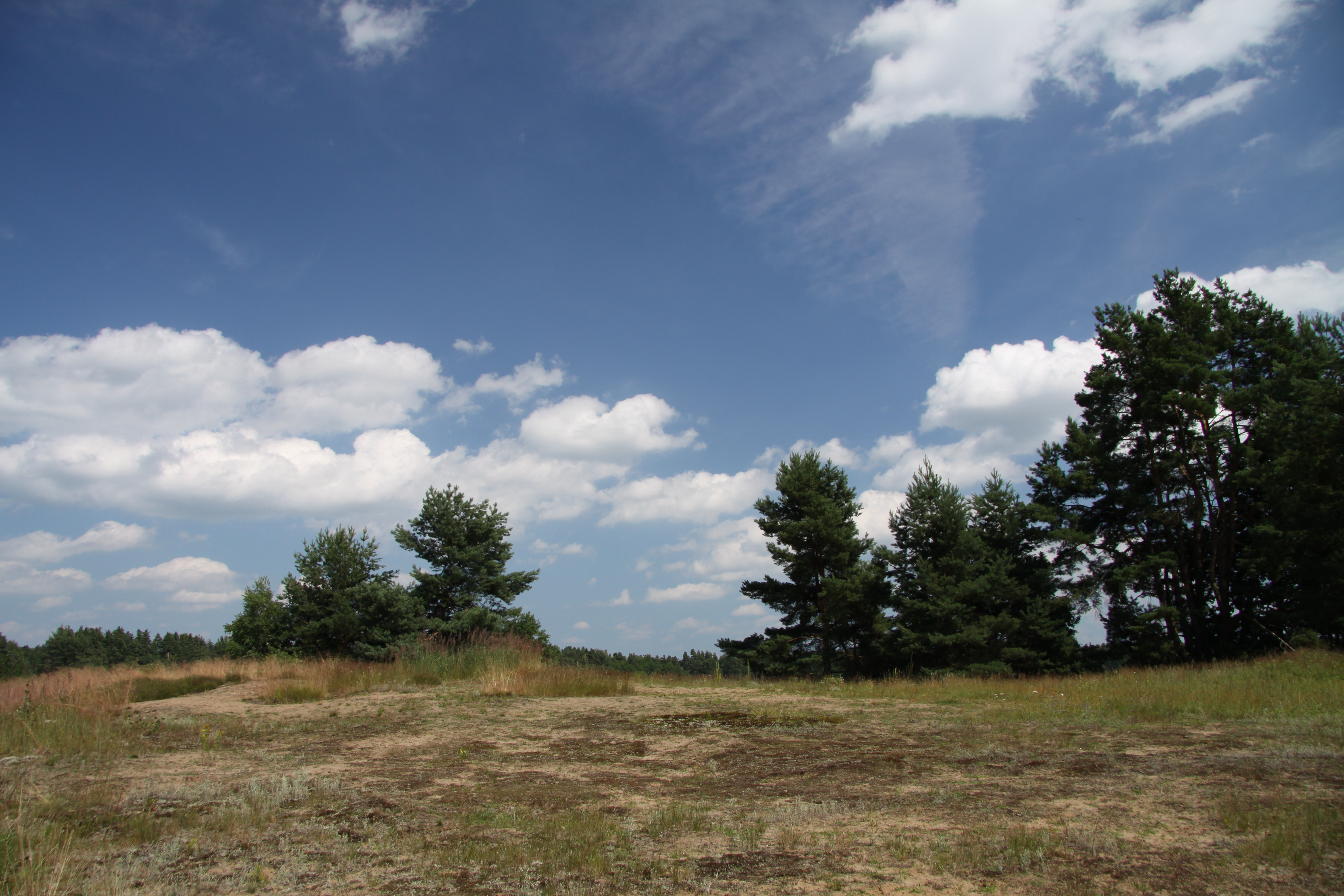 Natural monument Slepičí vršek near Lužnice village in Jindřichův Hradec District, Czech Republic - Google Maps - Google Earth